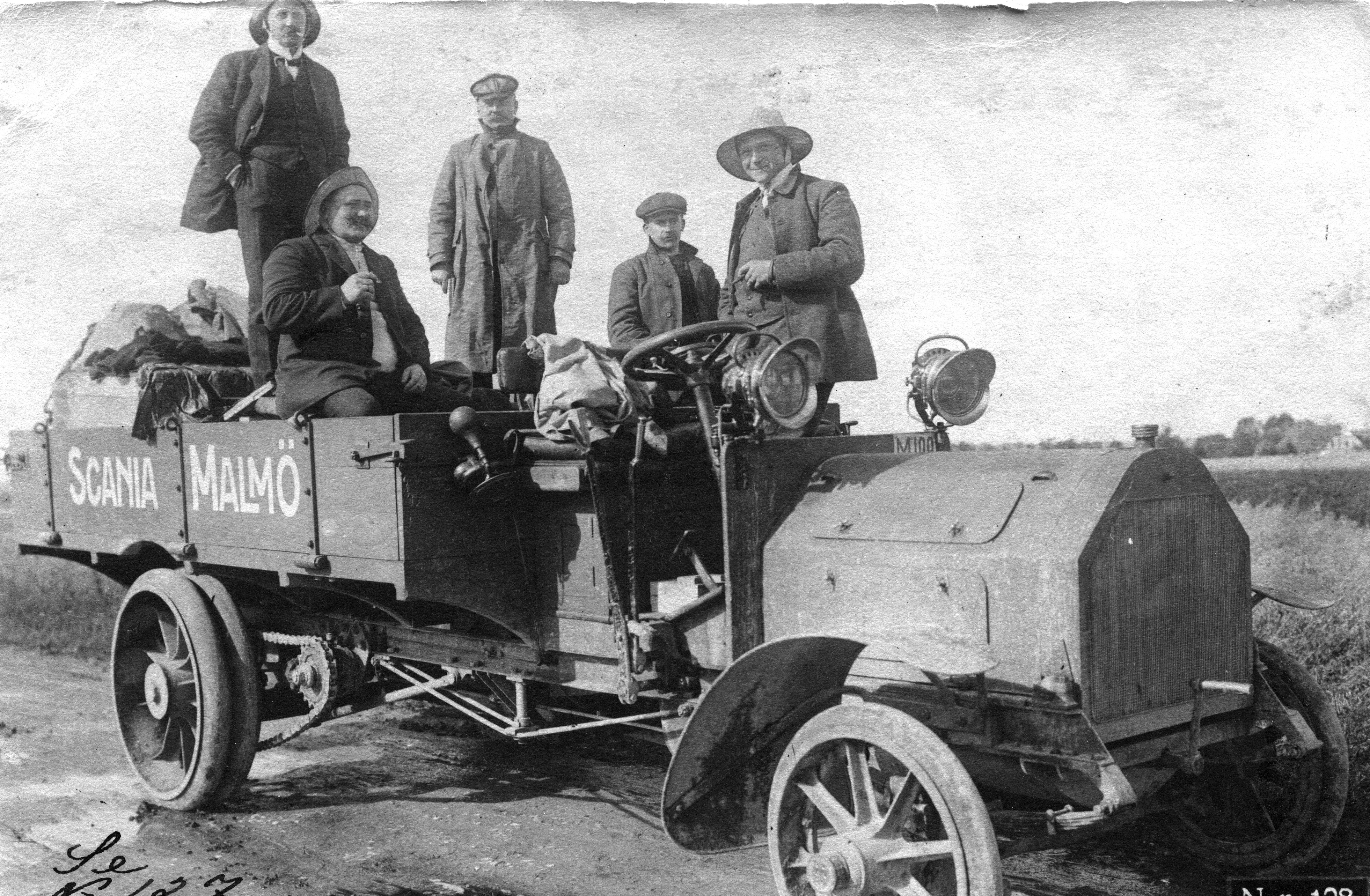 The first lorry transport through Sweden in 1909.